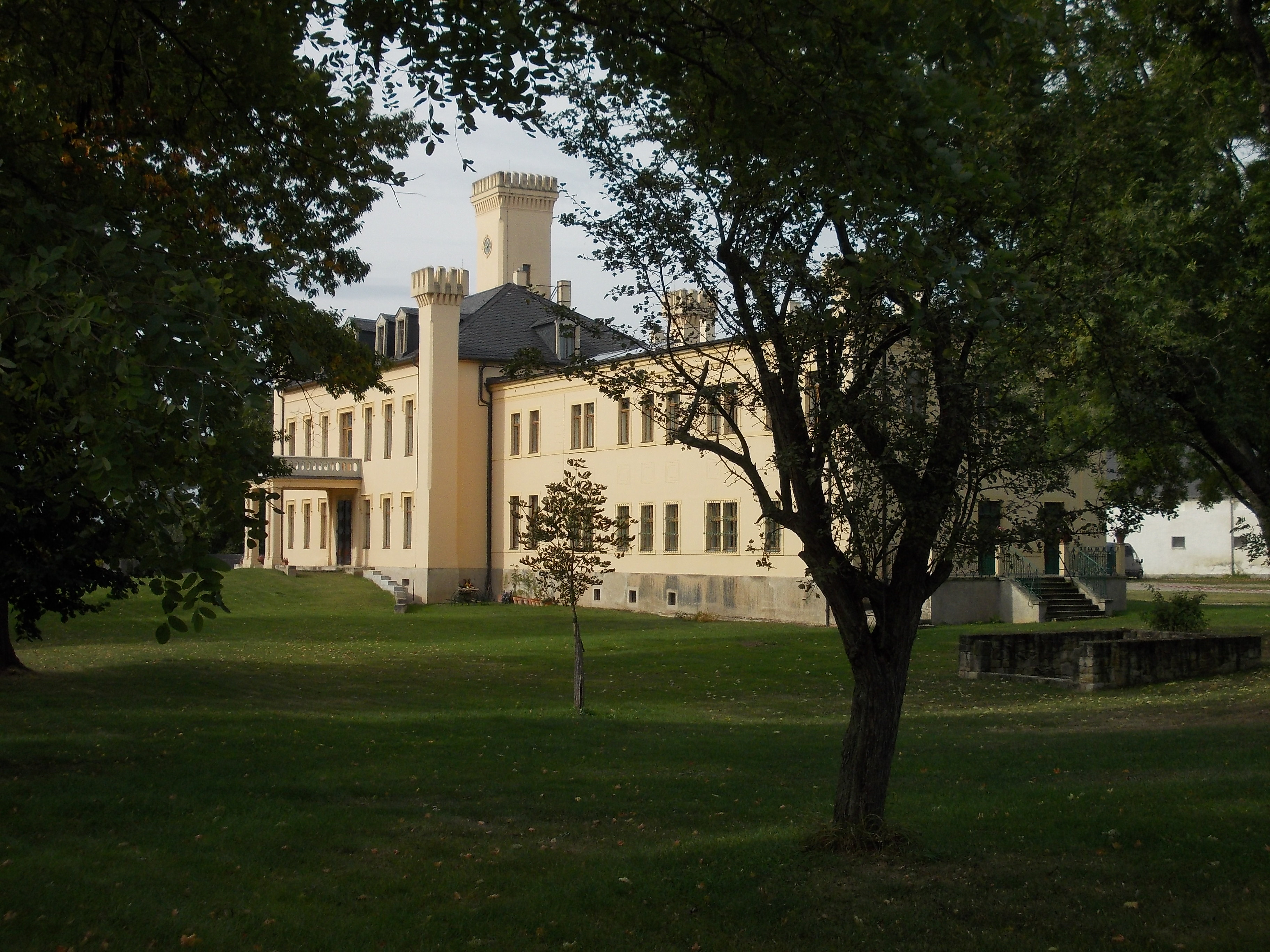 Pülswerda castle (Arzberg, Nordsachsen district, Saxony)